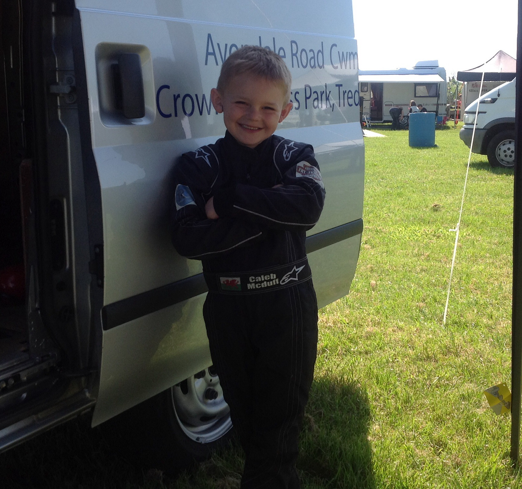 Caleb McDuff at Shennington Kart Circuit May 2014, round 3 of the Bambino Kart Club Tour